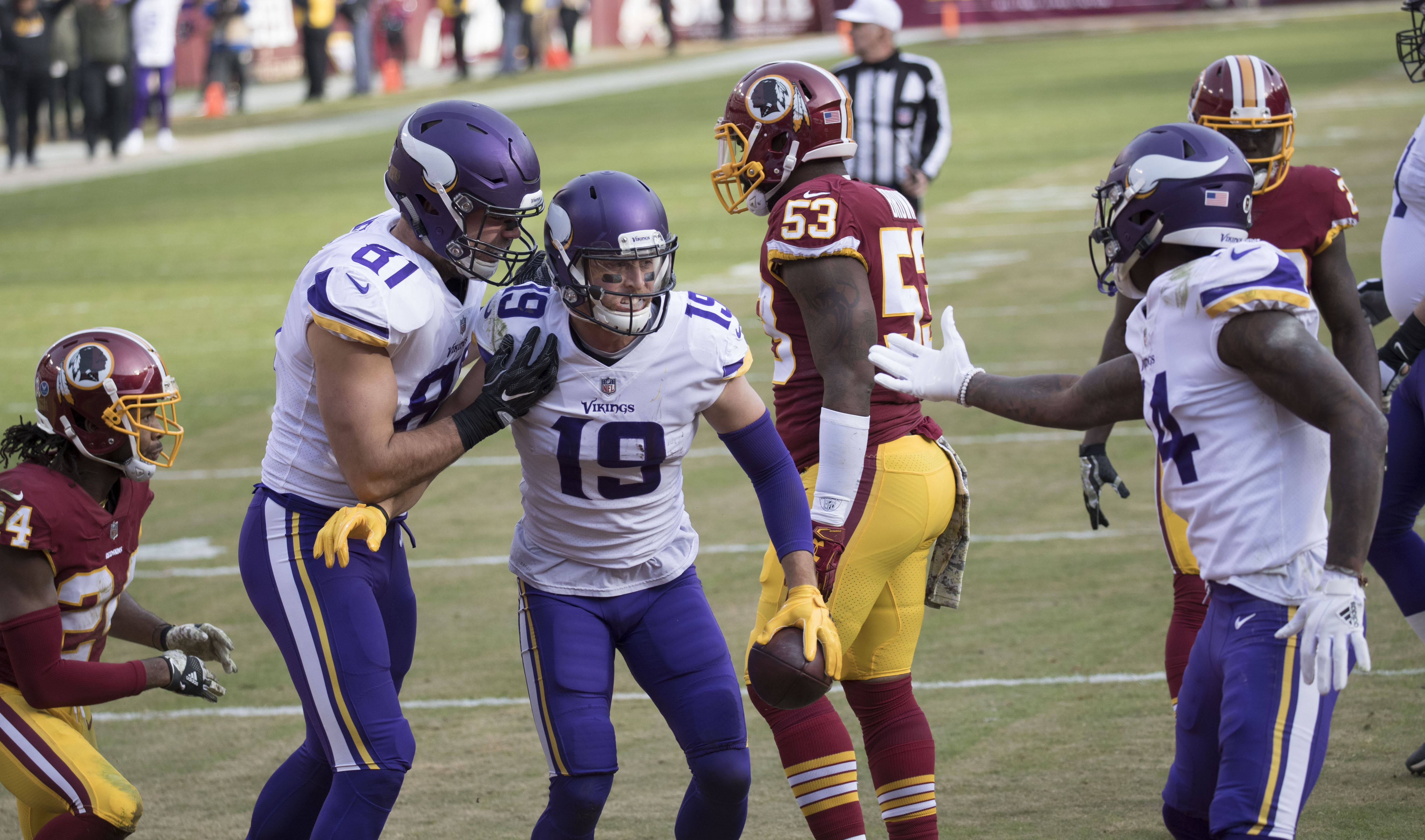 Adam Thielen of the Minnesota Vikings celebrates after scoring a touchdown against the Washington Redskins at FedExField on November 13, 2017 in Landover, Maryland.